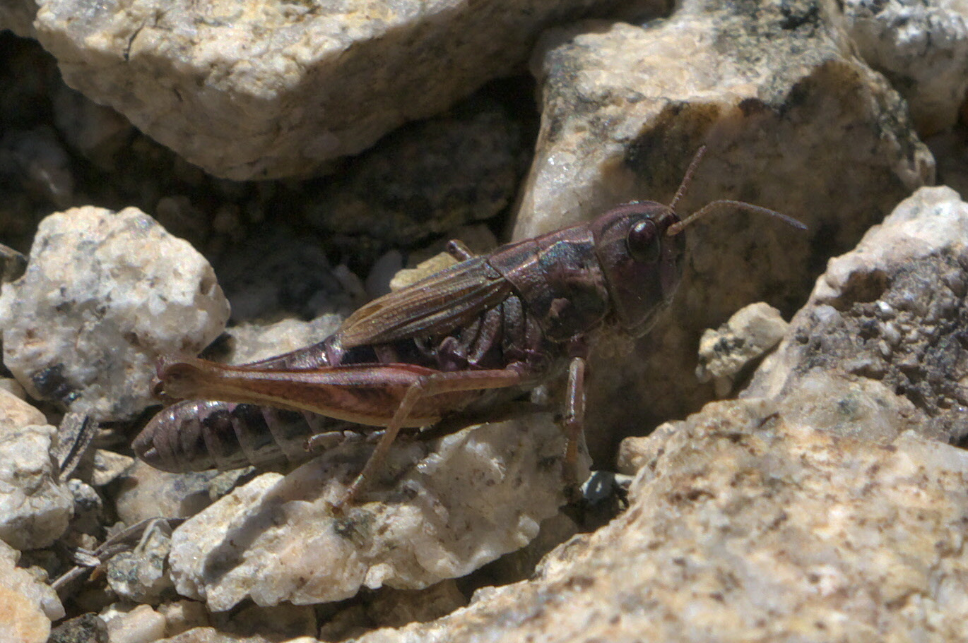 Aeropedellus clavatus, Club-horned Grasshopper, ID Confidence: 98